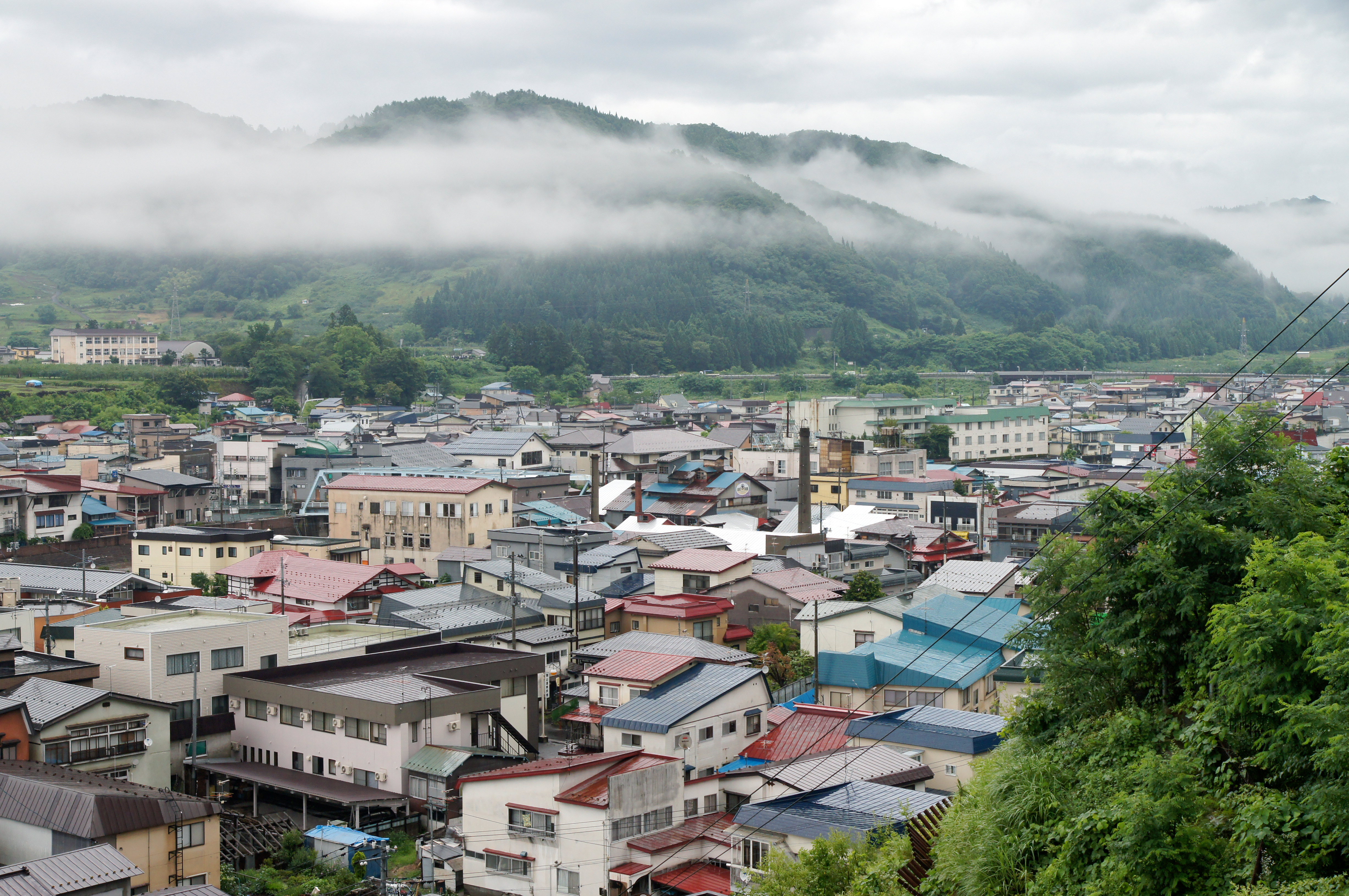 Owani Onsen town view from Chausuyama Park in Owani, Aomori prefecture, Japan